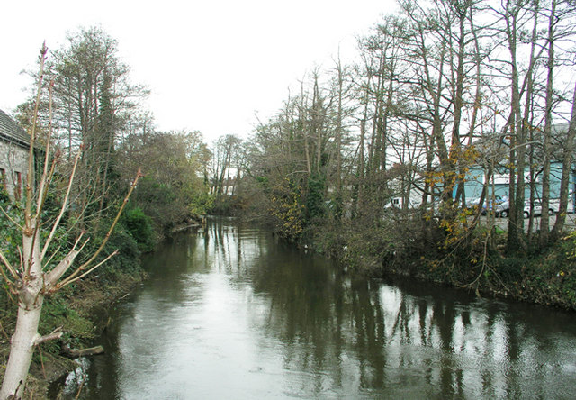 River Ely, Cardiff Taken from Cowbridge Road river bridge